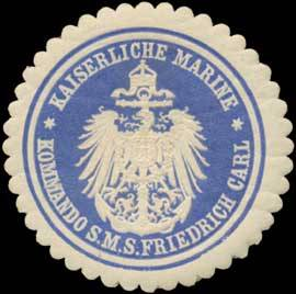 Sealing stamp Title: K. Marine Kommando S.M.S. Friedrich Carl Description: Schiff Place: size: cm